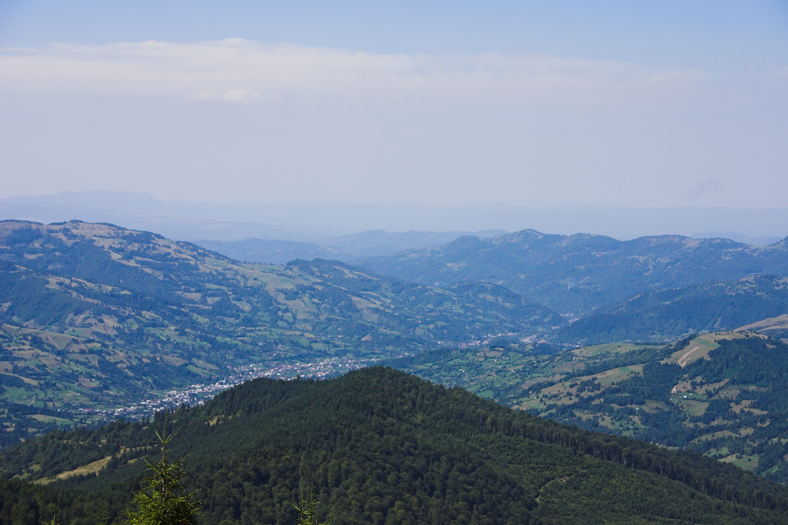 Poenile de sub Munte commune, Romania. View from nearby massif in northeast.